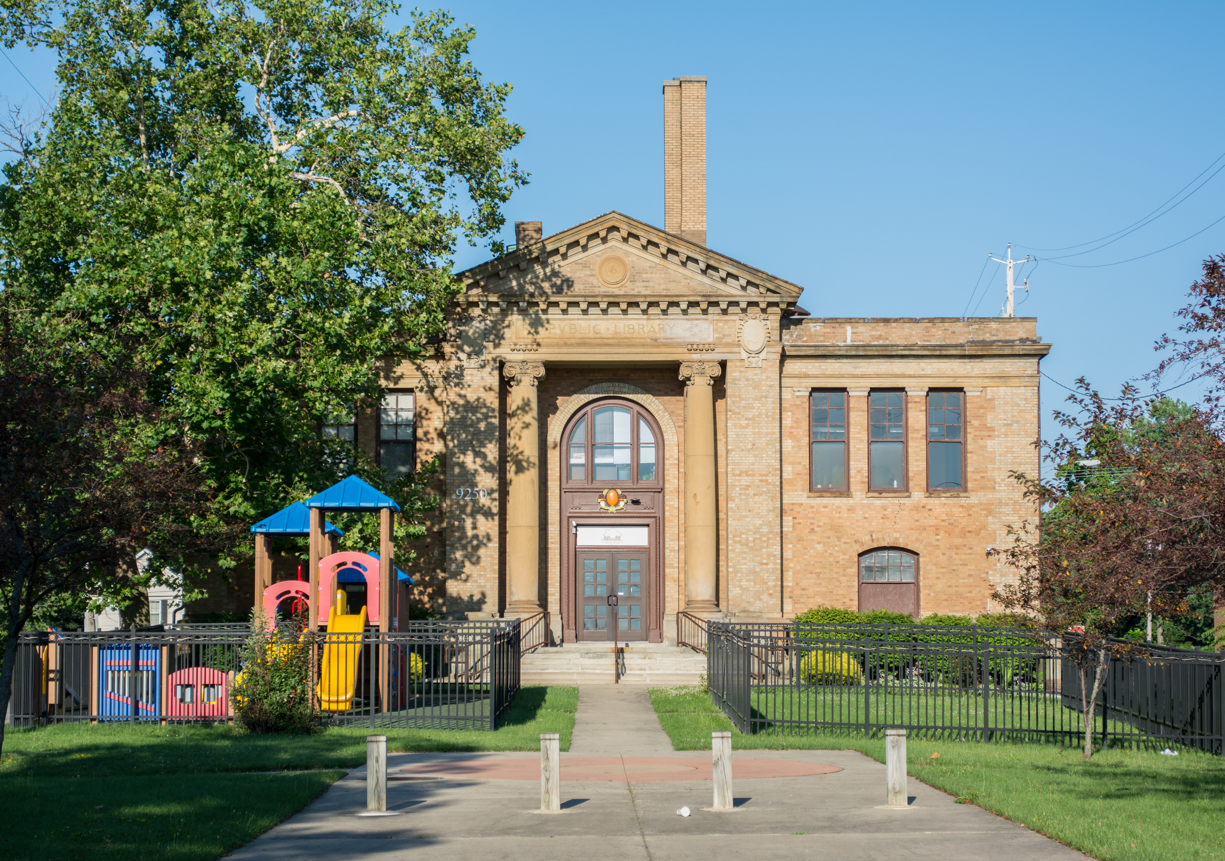 Headquarters of the Union Miles Development Corporation at the west end of the Miles Park Historic District, located on Miles Park Avenue between E. 91st and E. 93rd Streets in the Union-Miles Park neighborhood of Cleveland, Ohio, in the United States. This area was the heart of what later became the Village of Newburgh. Newburgh Township was officially organized in 1814, and the village in 1874. The land which forms the park was donated by Thomas Miles, the son of one of the most prominent settlers of the area. In 1828, a "town hall" was erected at what is now 9213 Miles Park Avenue, where it served as a church, school, and township meeting hall. This structure was enlarged in 1872. The following year, when the village was annexed by the city of Cleveland, the town hall was turned into a branch of the Cleveland Public Library. The public square was named Miles Park in honor of its donor, Theodore Miles, in 1877. The town hall was demolished in 1906, and a new library building erected on the site from 1906 to 1907. The Cleveland Public Library vacated this building in 1982, although it remained open for community use until 1987. It was closed, but rehabilitated in 2000 and turned over to the Union-Miles Neighborhood Development Corporation for use as its headquarters. This historic district was added to the National Register of Historic Places on May 17, 1974.